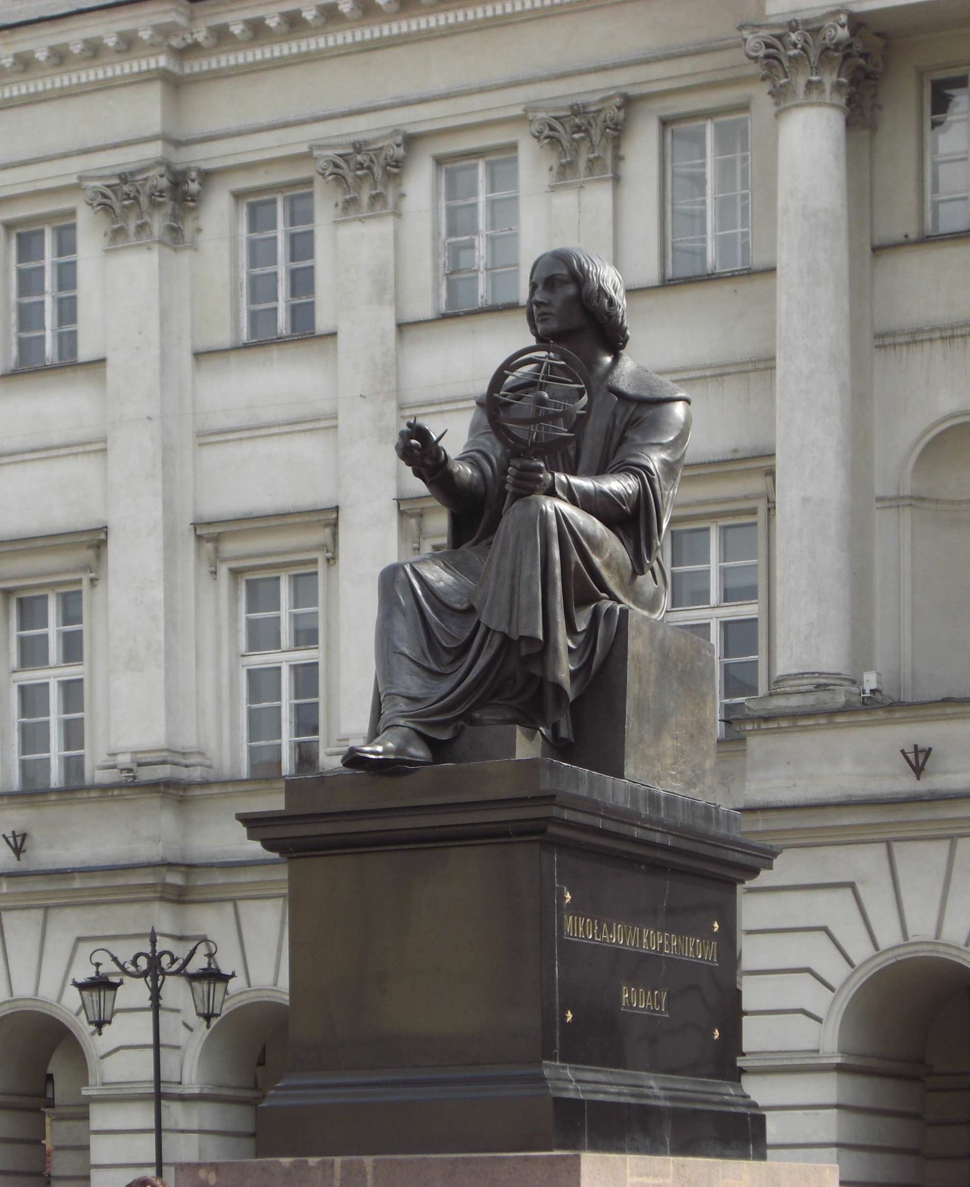 Nicolaus Copernicus Monument in Warsaw, Poland